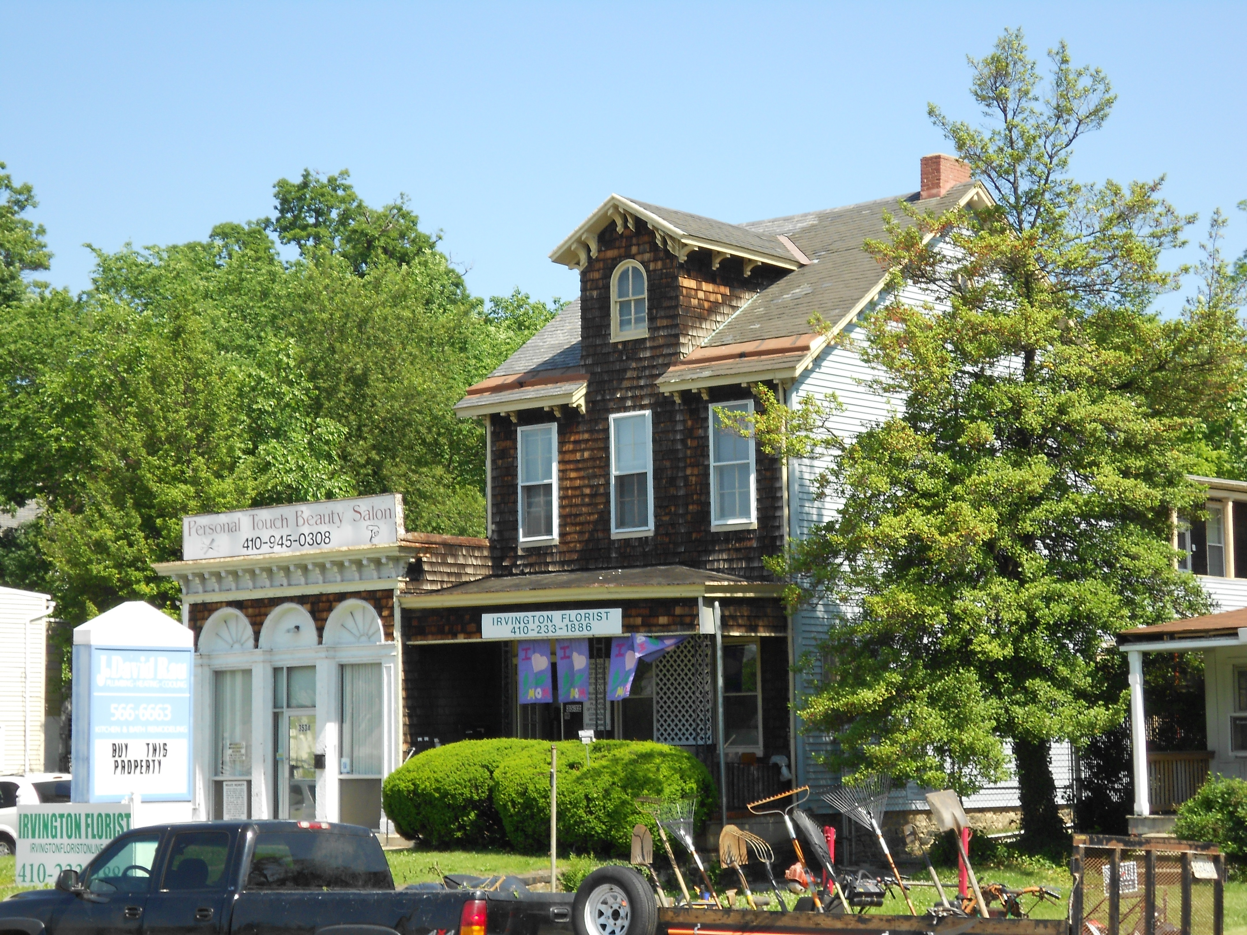 View from Frederick Avenue in the Baltimore neighborhood of Irvington